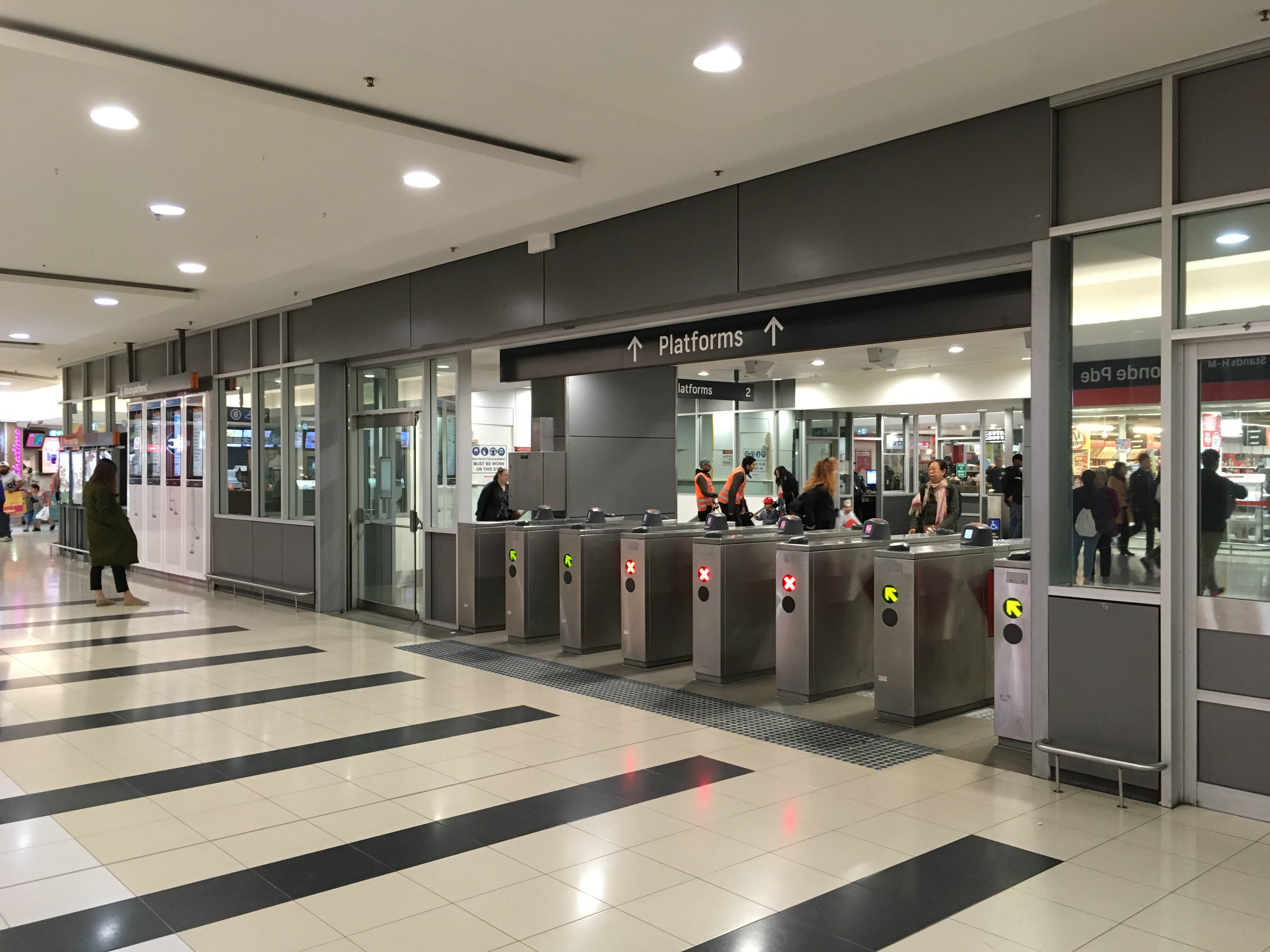 View of the western ticket barriers to Hurstville railway station, located inside the Hurstville Central shopping centre. The entrance, which faces the centre's Coles Supermarkets store, features a four digital indicators, three dedicated to Sydney Trains's T4 Eastern Suburbs & Illawarra Line service, and one for NSW TrainLink's South Coast Line service. Right beside them, four information panels, two of which occupied by networks of the Sydney Trains and NSW TrainLink systems, respectively. Seven ticket barriers line the station's western entrance, with no "easy access" gate unlike the station's eastern entrance.